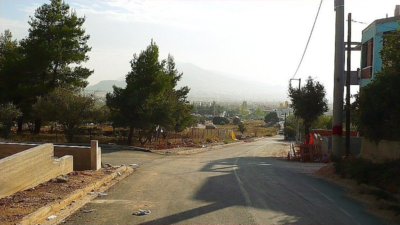 Northern Patima-Halandri-Greece